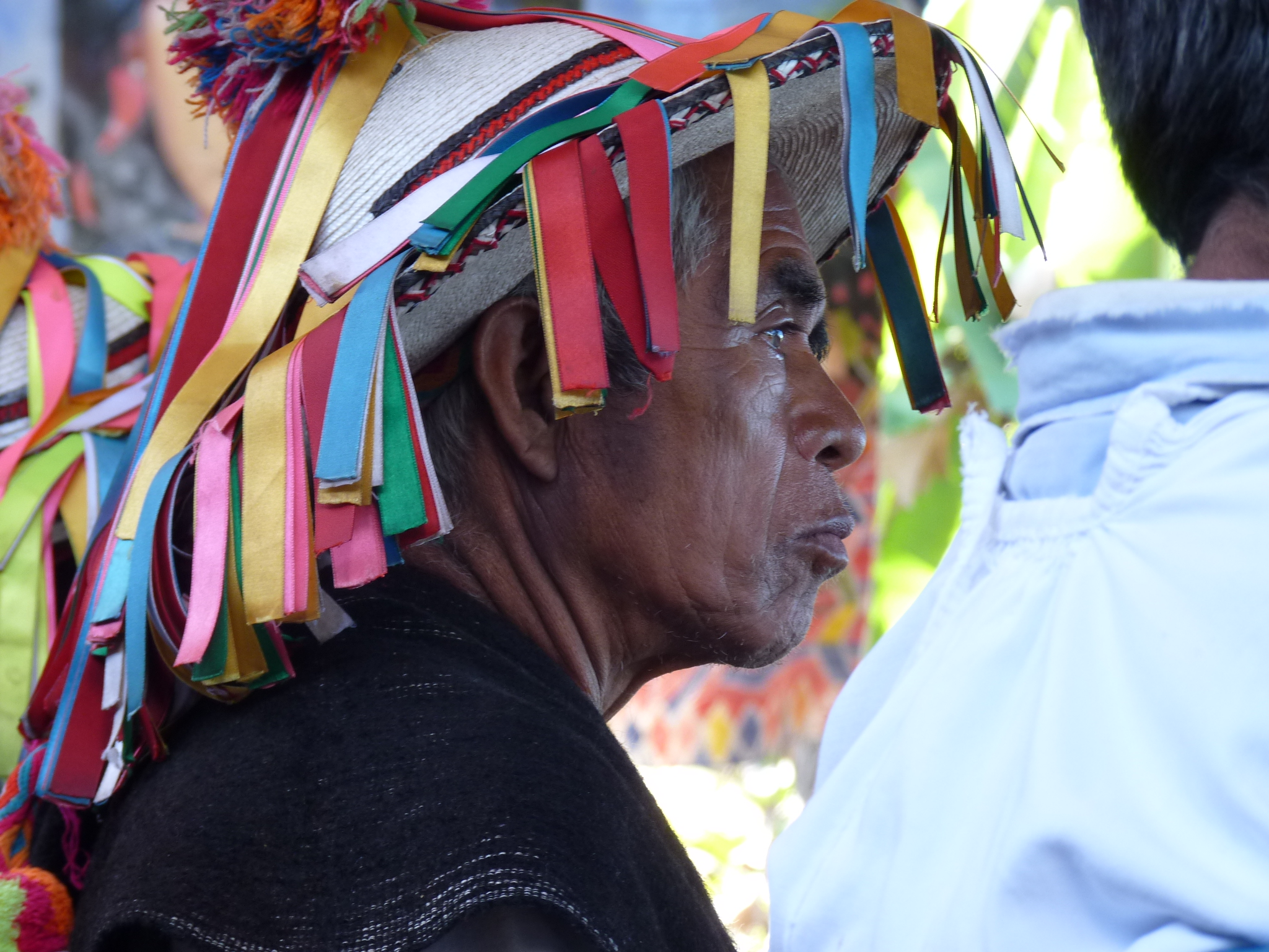 member of the acteal's "abejas"